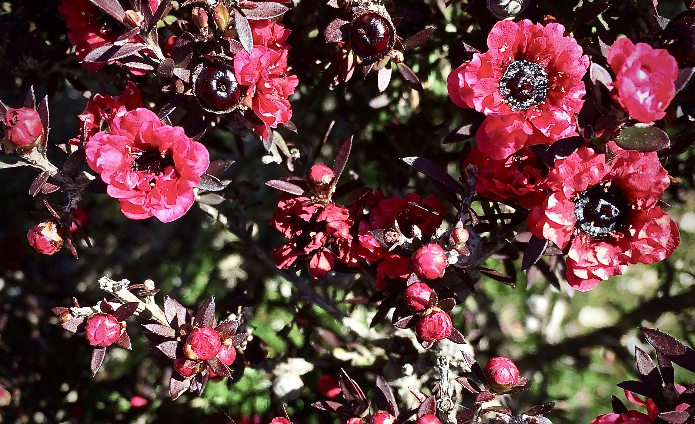 If you wanted to no why people plant Australian tea trees, that are pretty nondescript most of the year, now you know. Leptospermum scoparium. Myrtle family, popular ornamental on the Central Coast of Calif (and elsewhere).